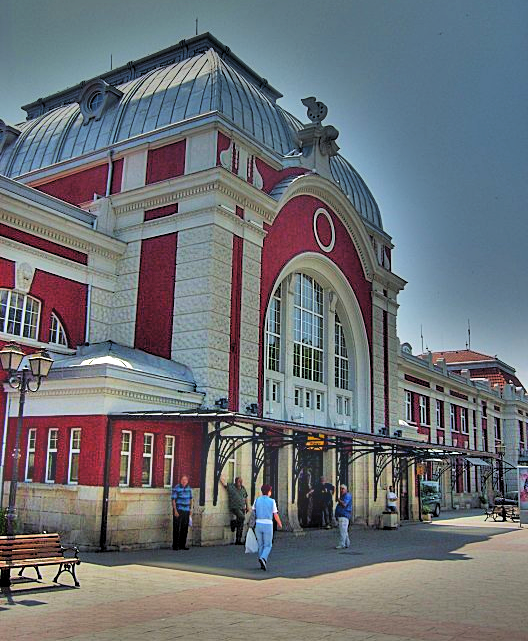 Front view of the Art Nouveau Varna Railway Station's facade. Varma, Bulgaria.